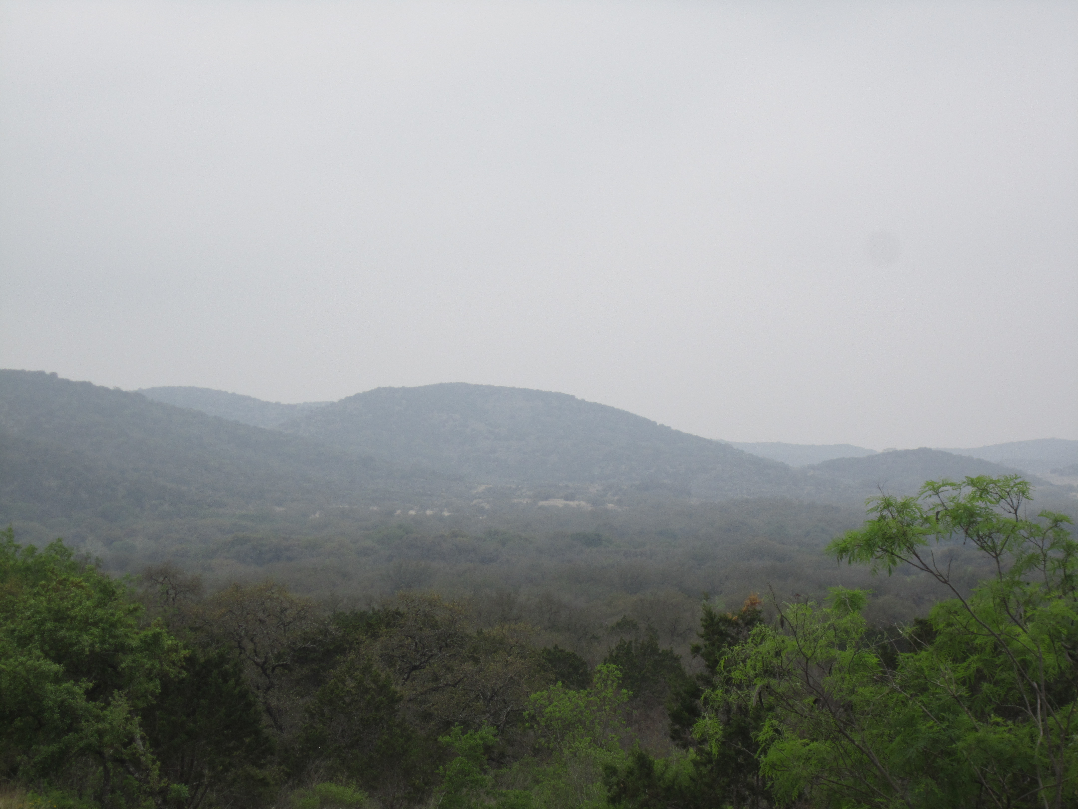 I took photo in northern Uvalde County, TX, with Canon camera.